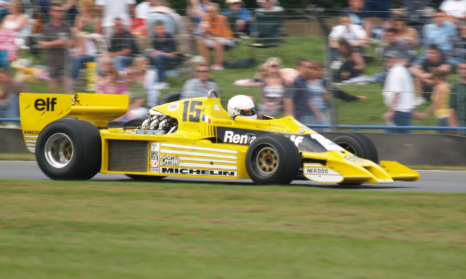 A Renault RS01 Formula One car being demonstrated by Rene Arnoux at the World Series by Renault event, at Donington Park, September 2007.